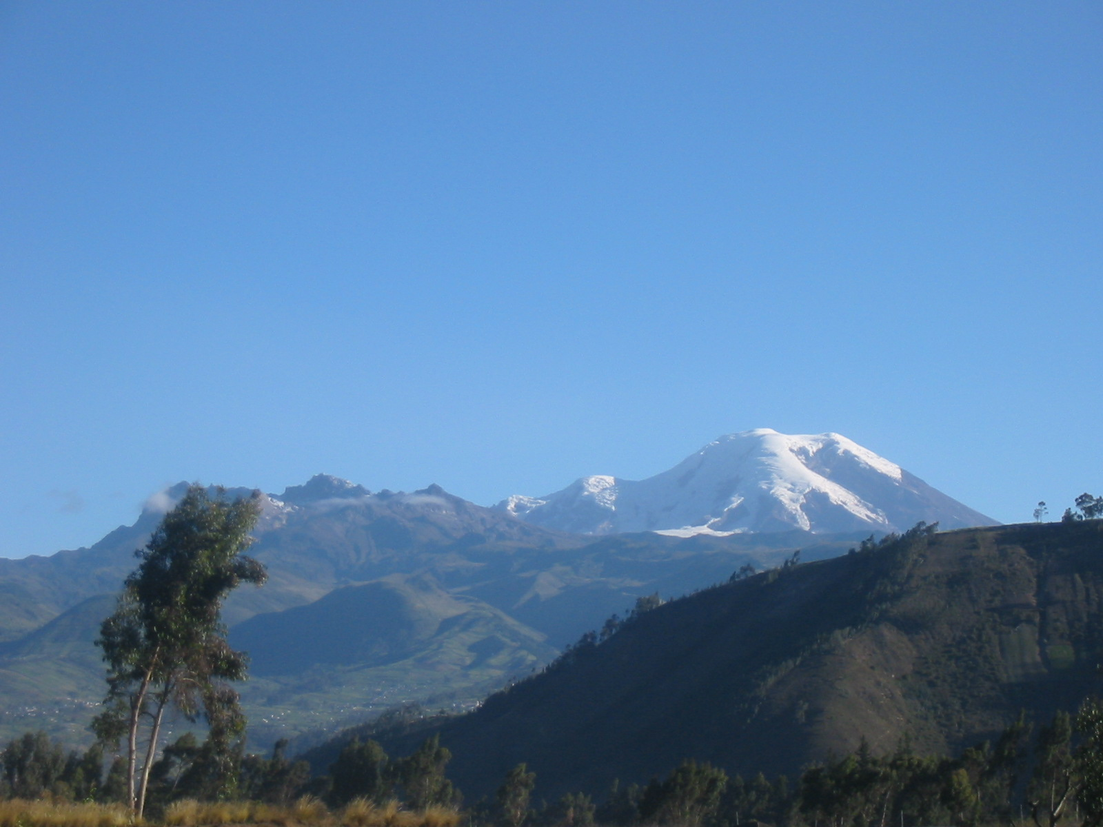 Chimborazo (right) and Carihuairazo (left) mountains from the Quisapincha Town.